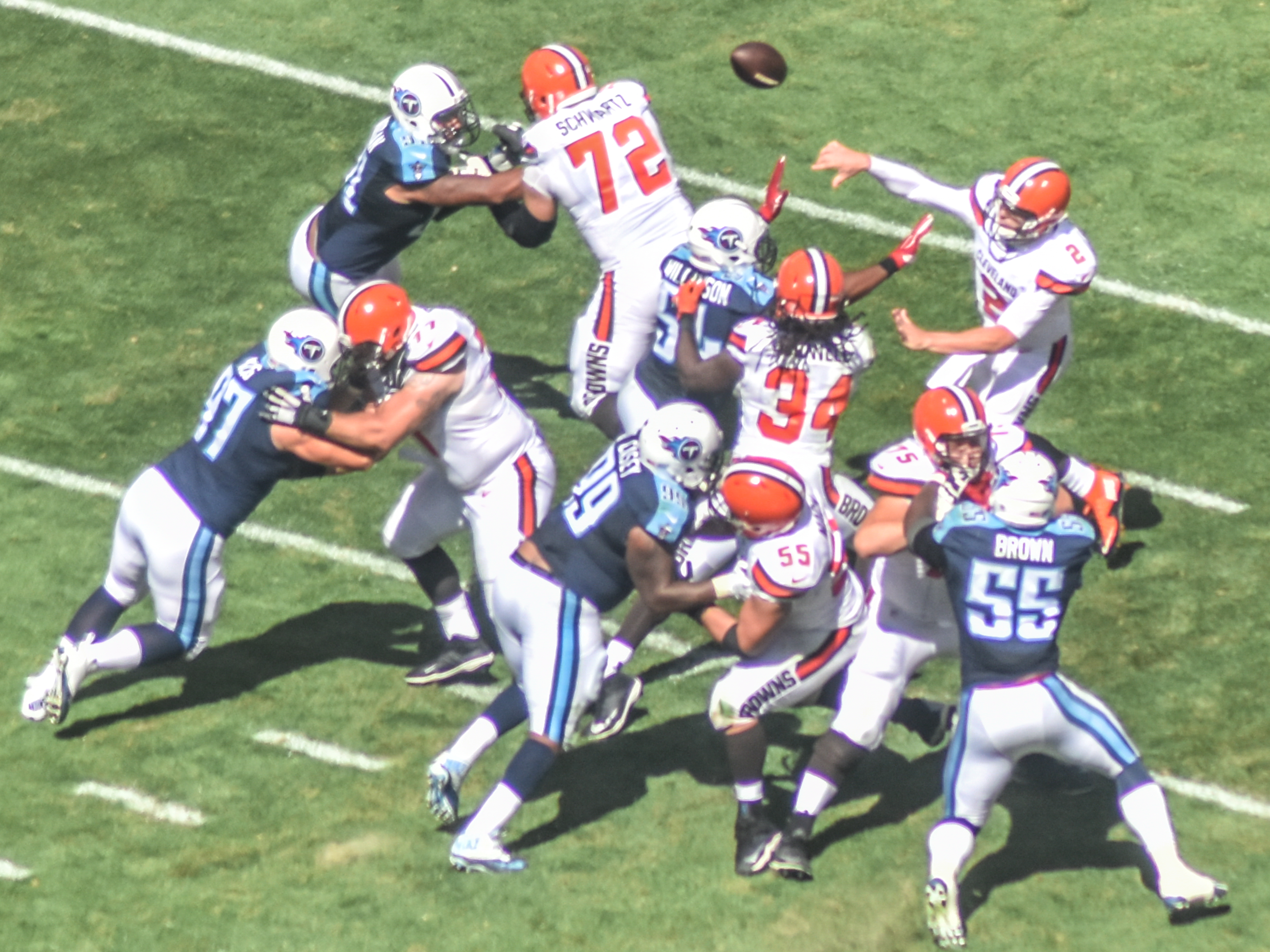 Cleveland Browns vs. Tennessee Titans